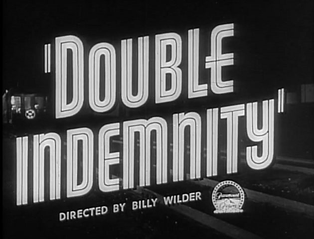 Cropped screenshot of title from the trailer for the film Double Indemnity